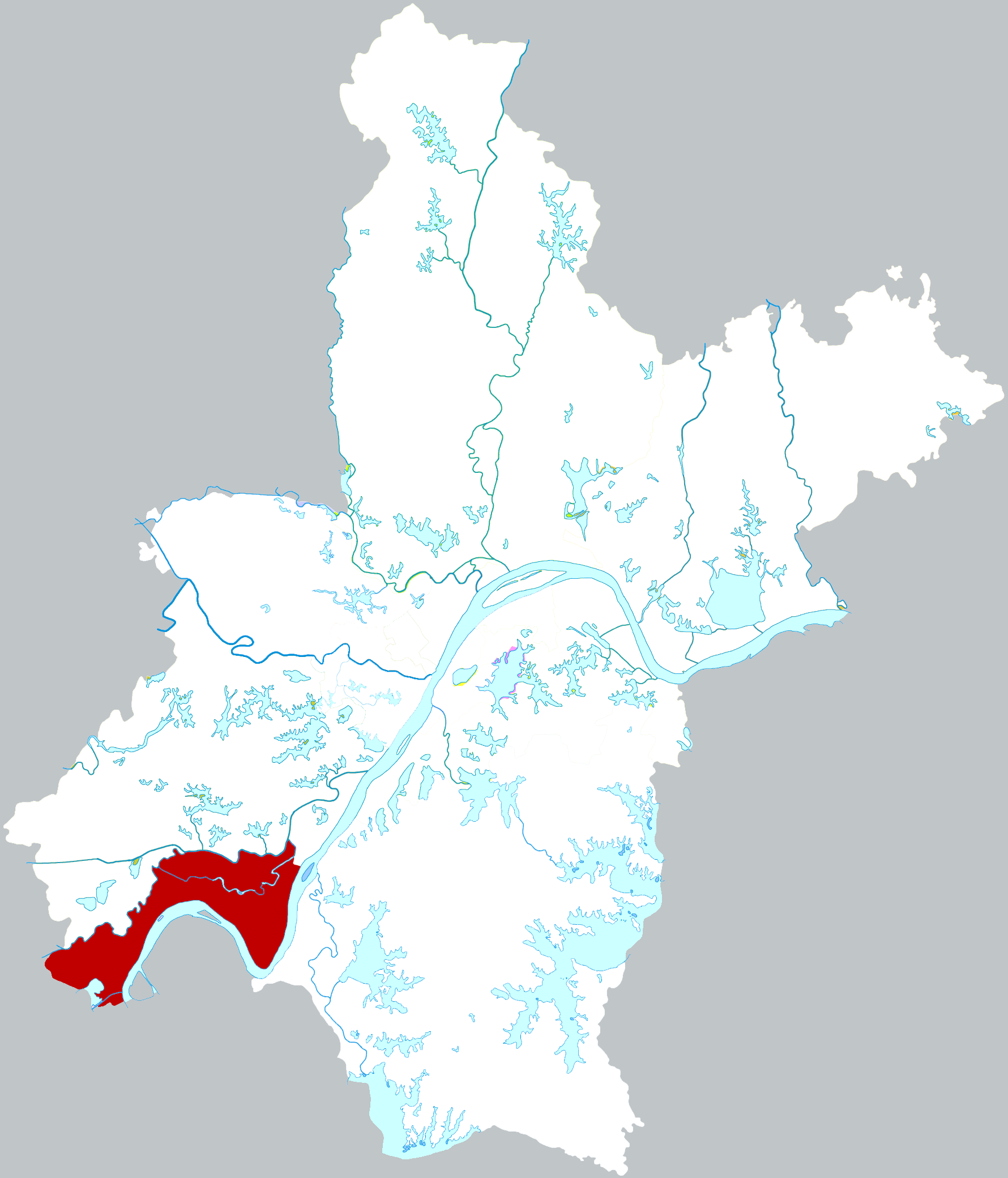 Location of Hannan district in Wuhan city, China